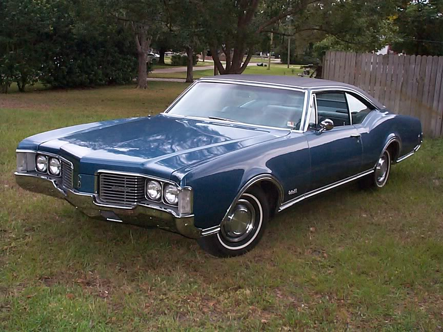 1968 Oldsmobile Delta 88 Holiday Coupe